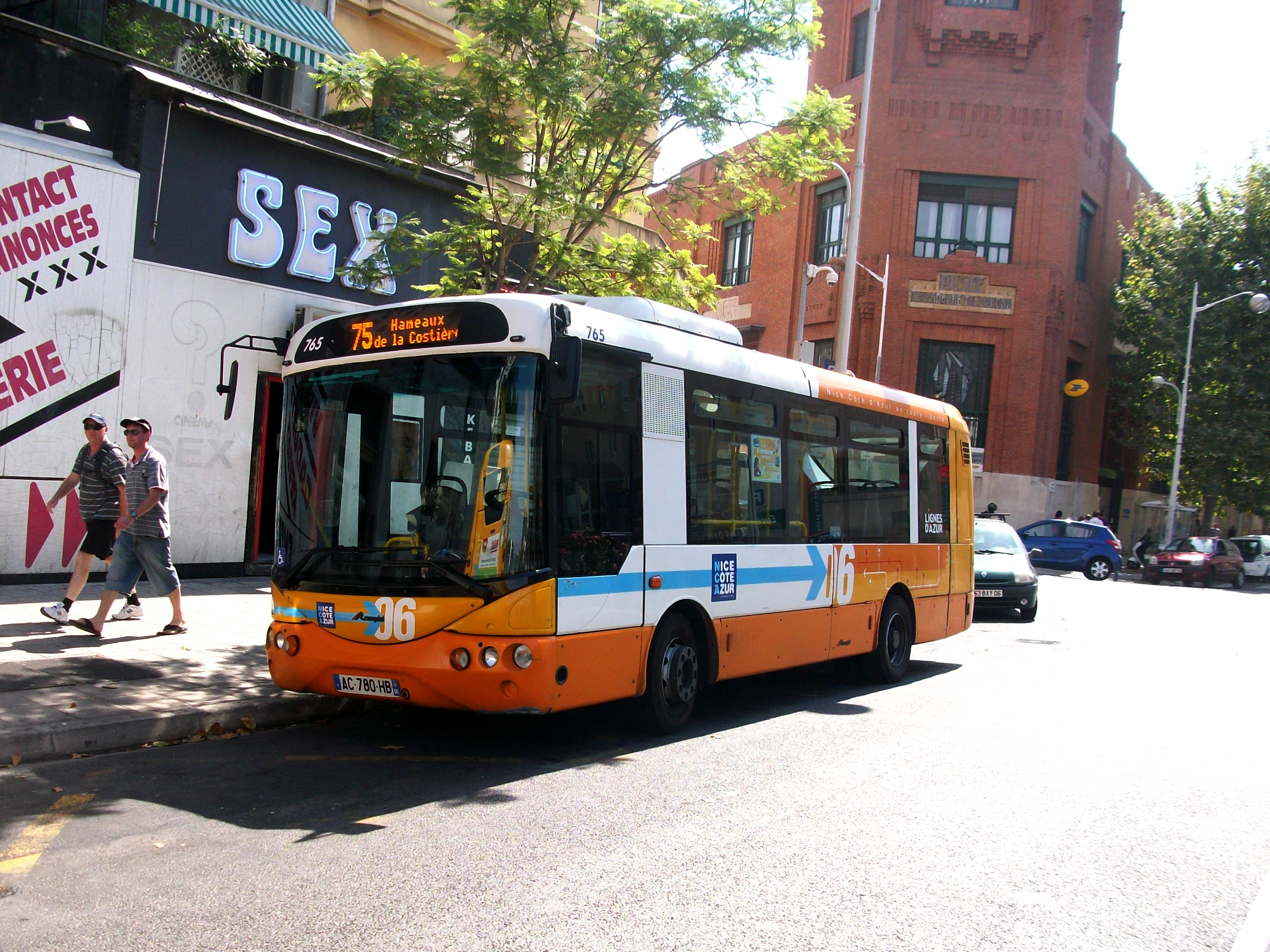 Bus Lignes d'azur Nice